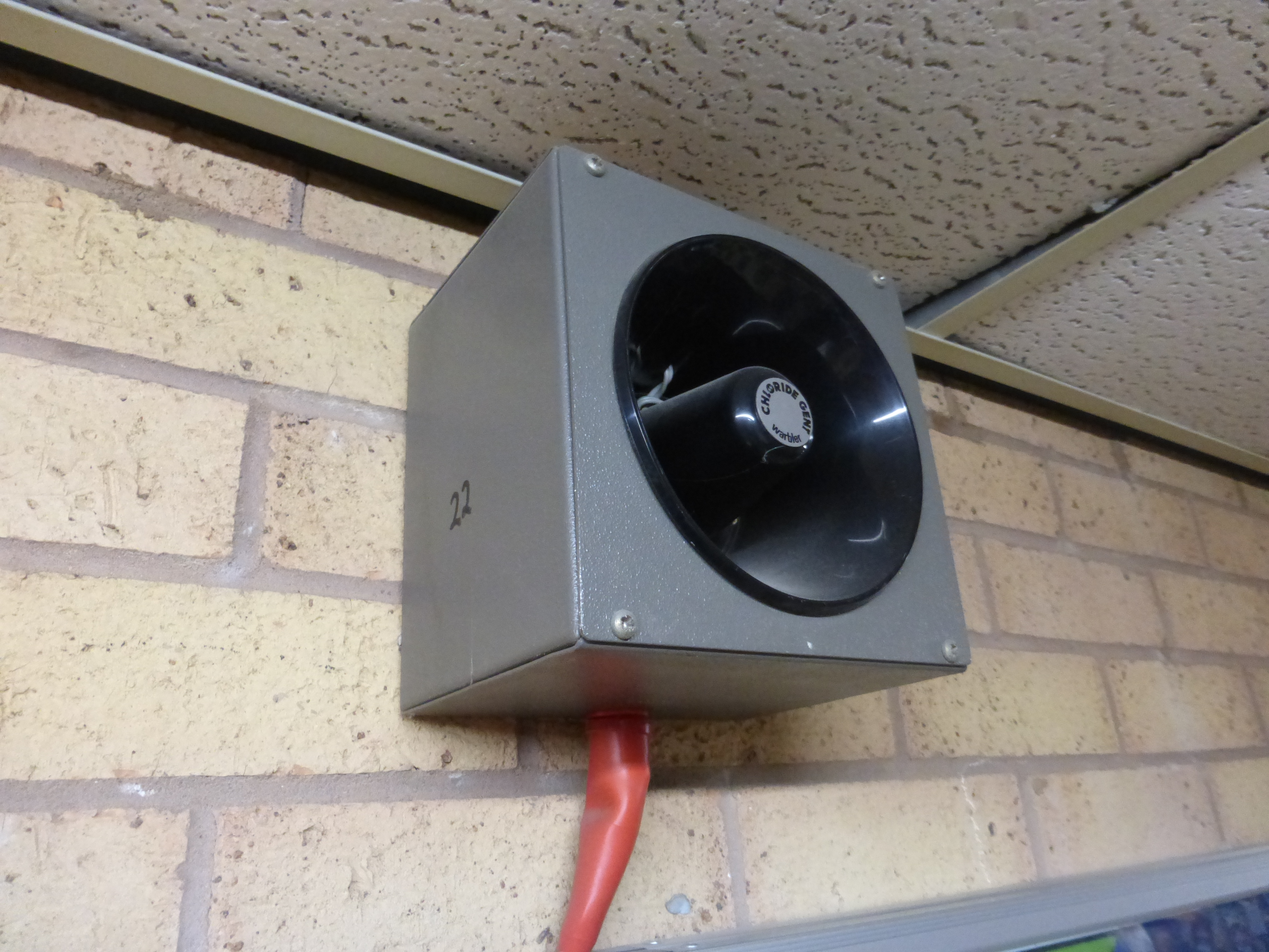 A Chloride Gent Warbler fire alarm sounder from 1980 in an English Secondary School.